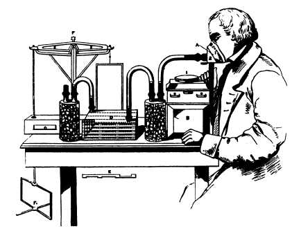 Carbon dioxide (CO2) apparatus from a paper published by Edward Smith from Derbyshire before his death in 1874.